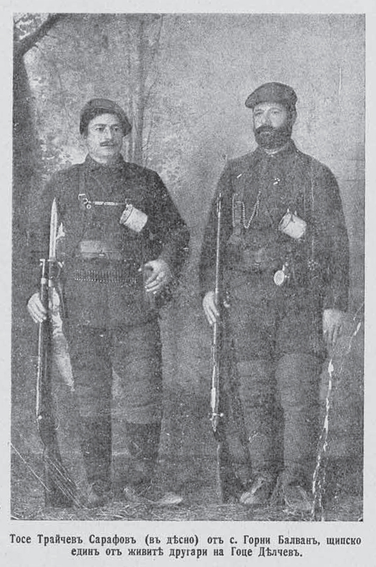 Tose Traychev Sarafov